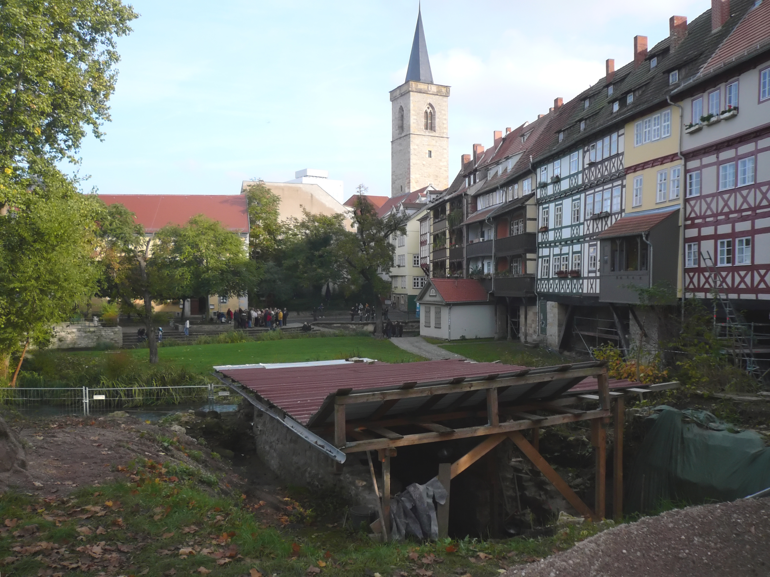 The old mikveh in Erfurt, Germany.